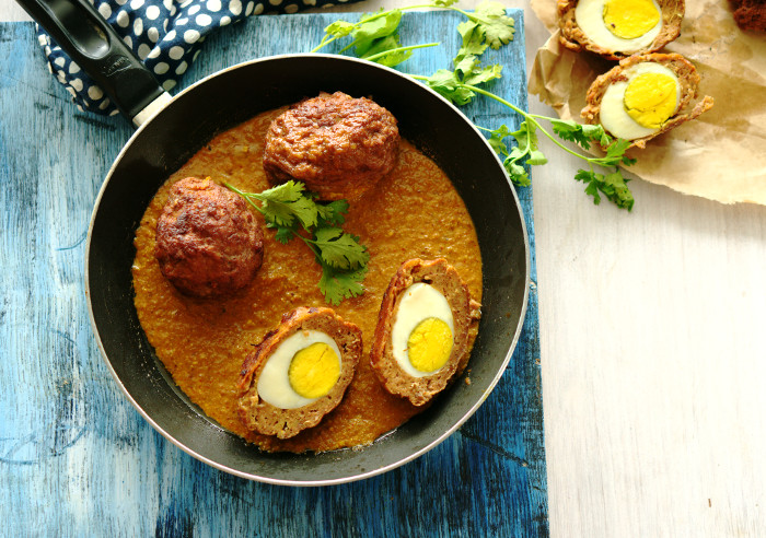 Nargisi Koftas are boiled eggs coated with mildly spices minced meat/keema and cooked in rich and creamy curry. Very close to English Scotch Eggs